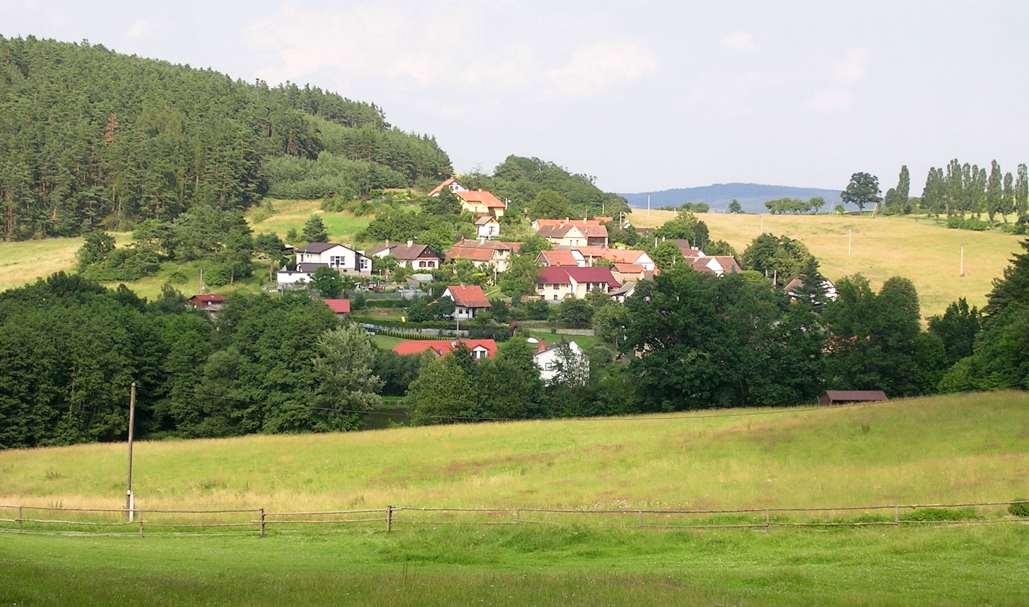 Sedlčany-Štileček, Příbram District, Central Bohemian Region, the Czech Republic. - Google Maps - Google Earth